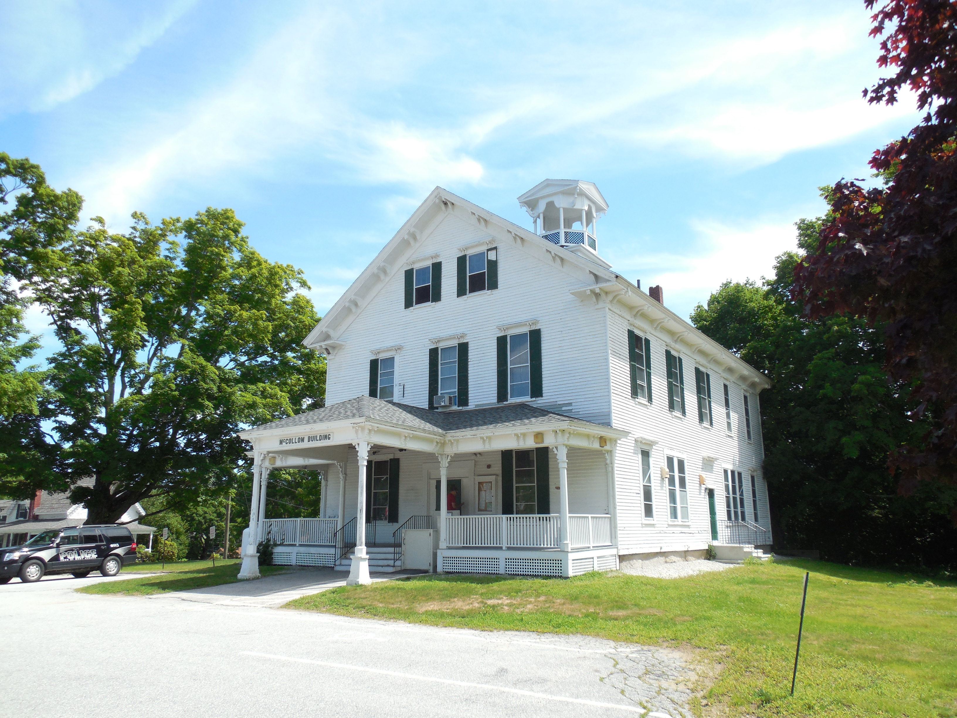 Police Department, Mont Vernon New Hampshire